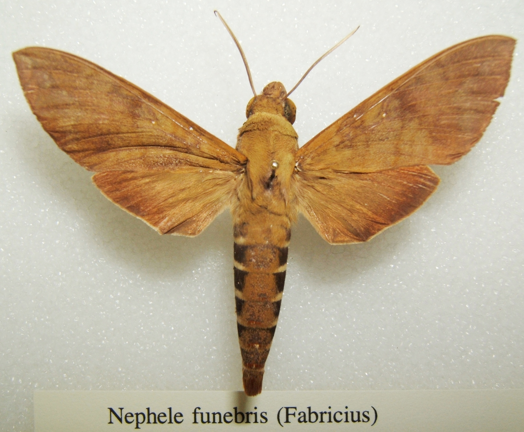 Nephele funebris adult taken by Shawn Hanrahan at the Texas A&M University Insect Collection in College Station, Texas.